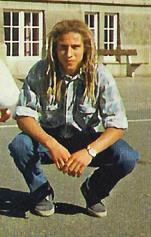 The Swedish football player Henrik "Henke" Larsson at the schoolyard of Magnus Stenbocksskolan in Helsingborg on the 8th of June 1993.